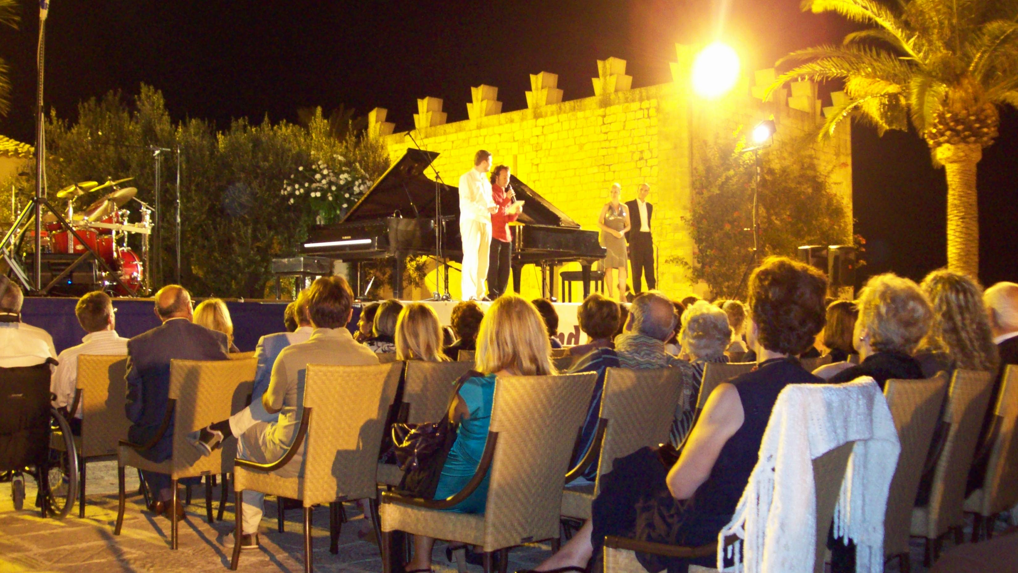 audience of ibla competition